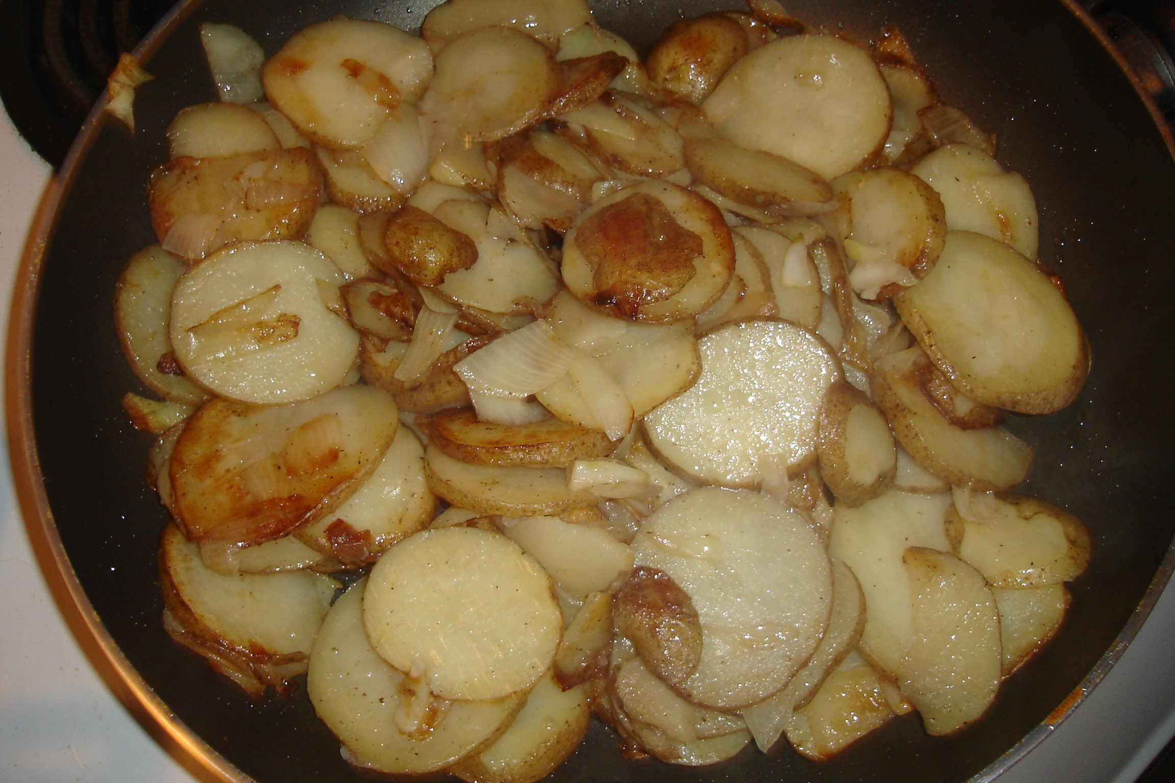 Fried potatoes